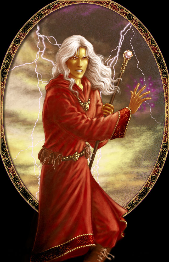 Raistlin in Red Robes. Image by Vera Gentinetta.